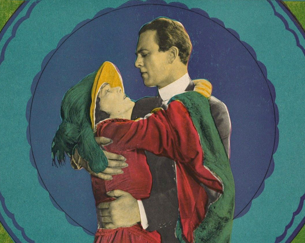 Lobby card for the American drama film Manslaughter (1922).